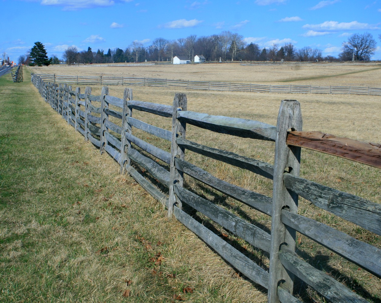 Gettysburg battlefield, rail fence of Emmitsburg Road and Brien's farm